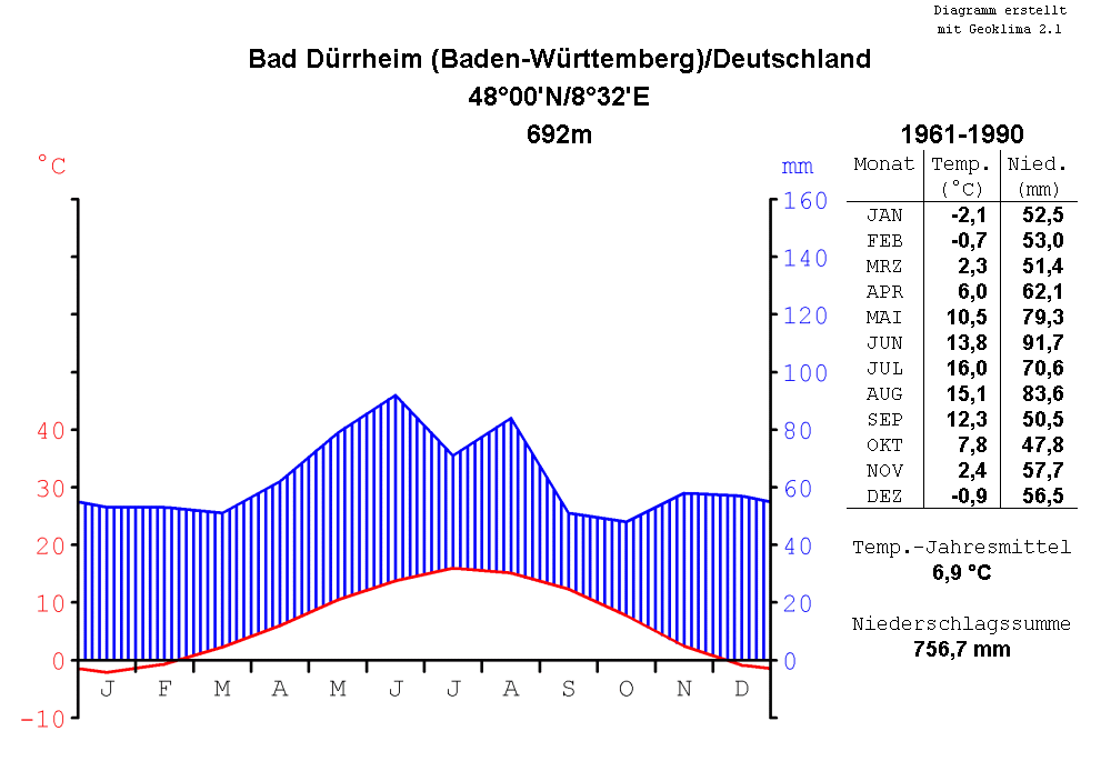 climate chart of Bad Dürrheim, Baden-Württemberg, Germany, for the period of time from 1961 to 1990, in the format by Walter and Lieth, metric, °Celsius and millimeters, chart made with Geoklima 2.1, label in German